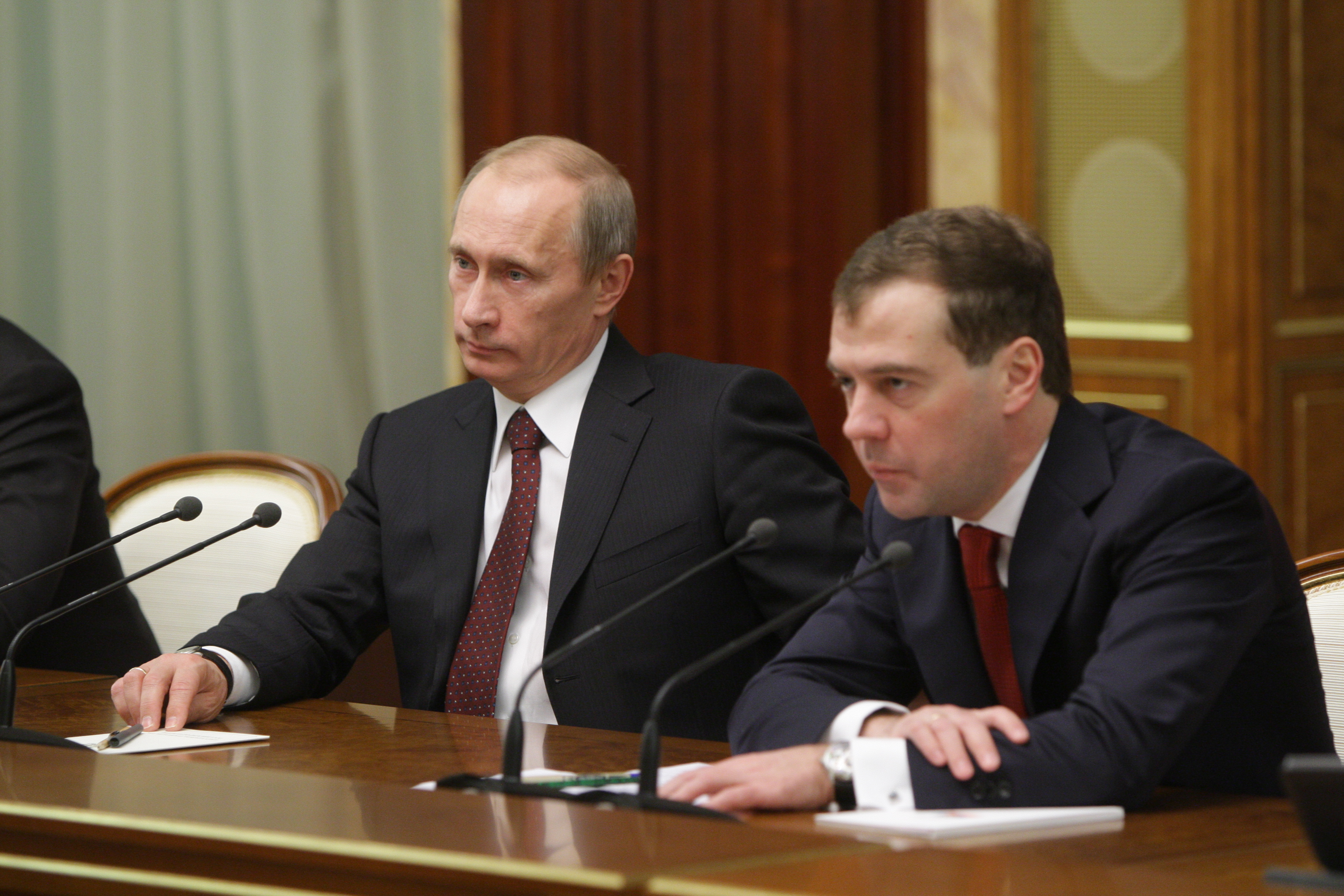 Prime Minister Vladimir Putin at this year’s final meeting of the government